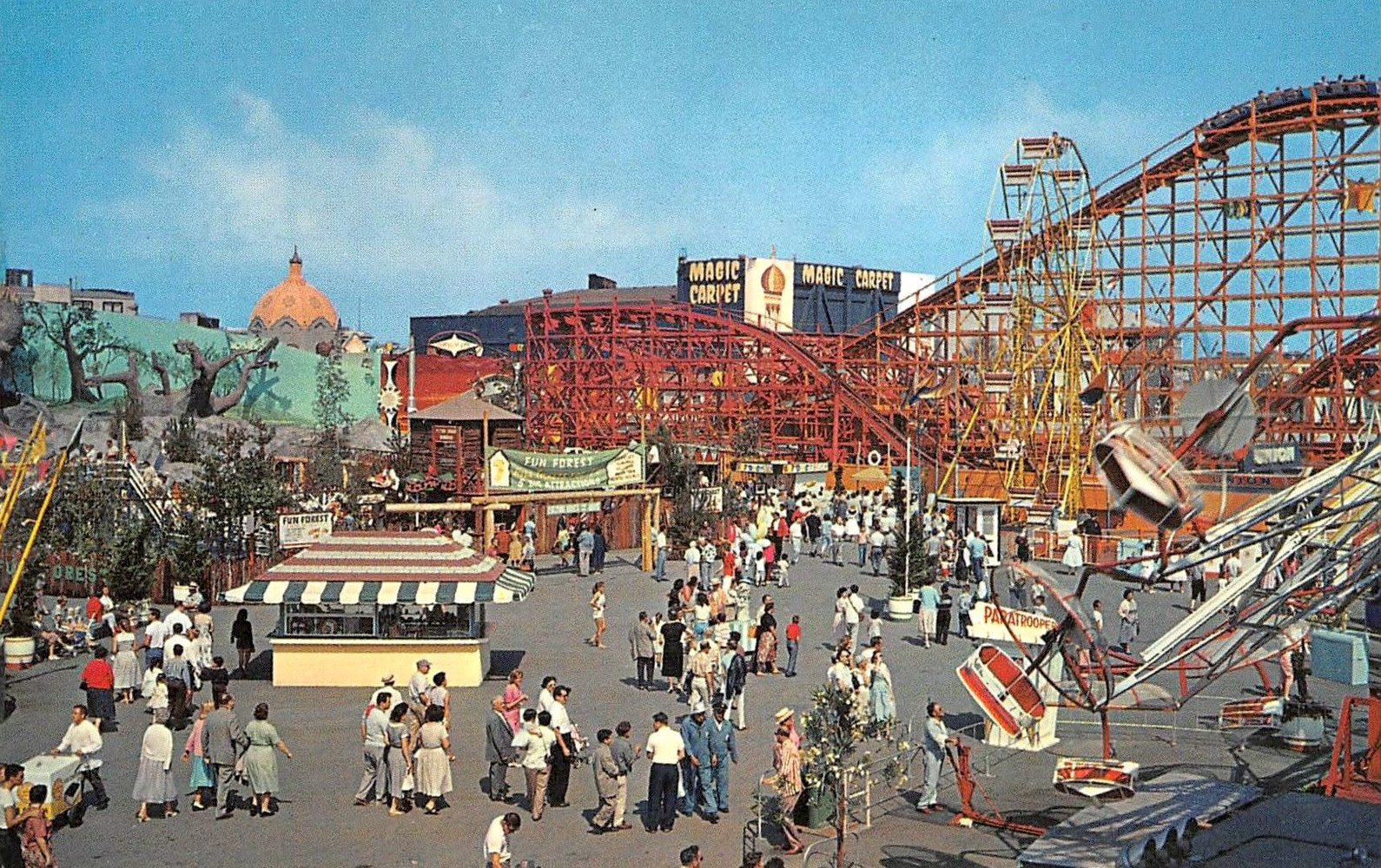 Postcard photo of The Sea Circus at Pacific Ocean park, Santa Monica, California.